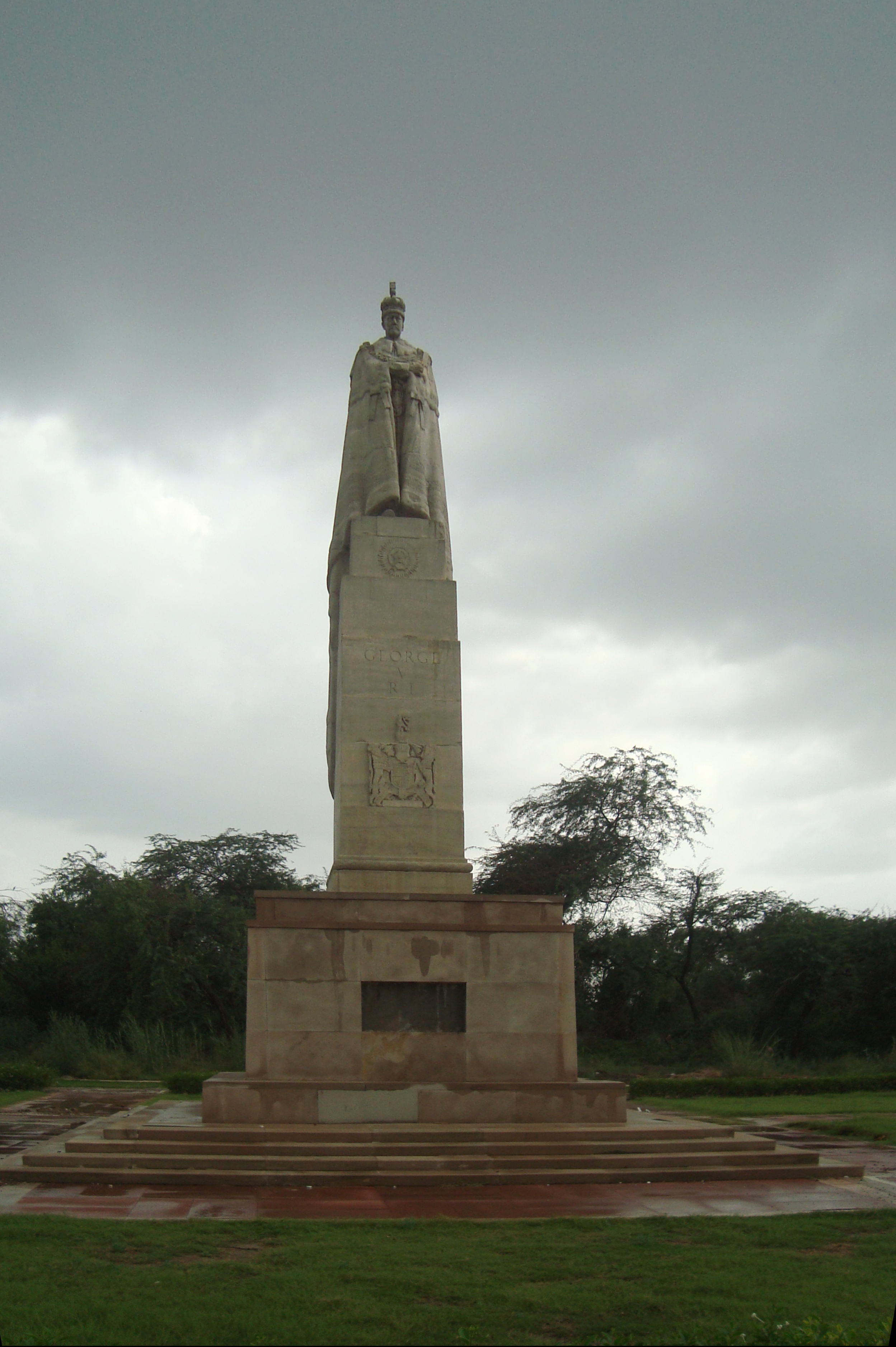 Coronation Park, Delhi